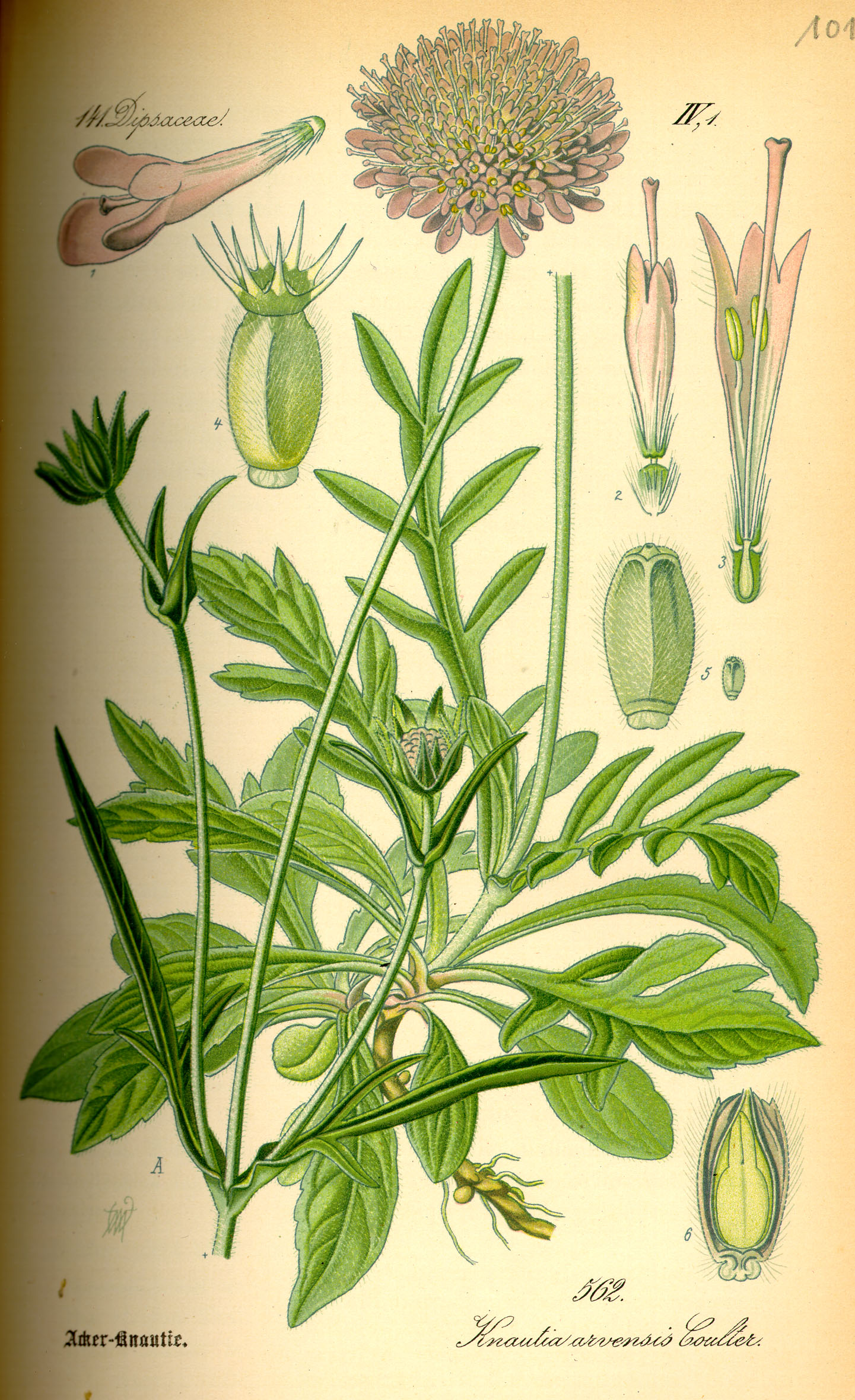 Name Knautia arvensis Family Dipsacaceae